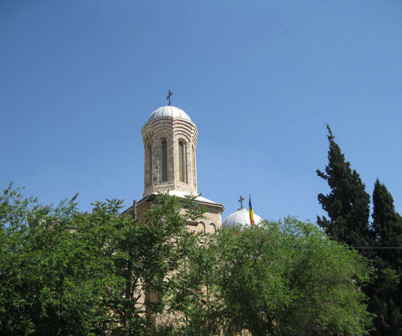 Jerusalem, Shivtei Israel Street, Romanian Orthodox Patriarchate.